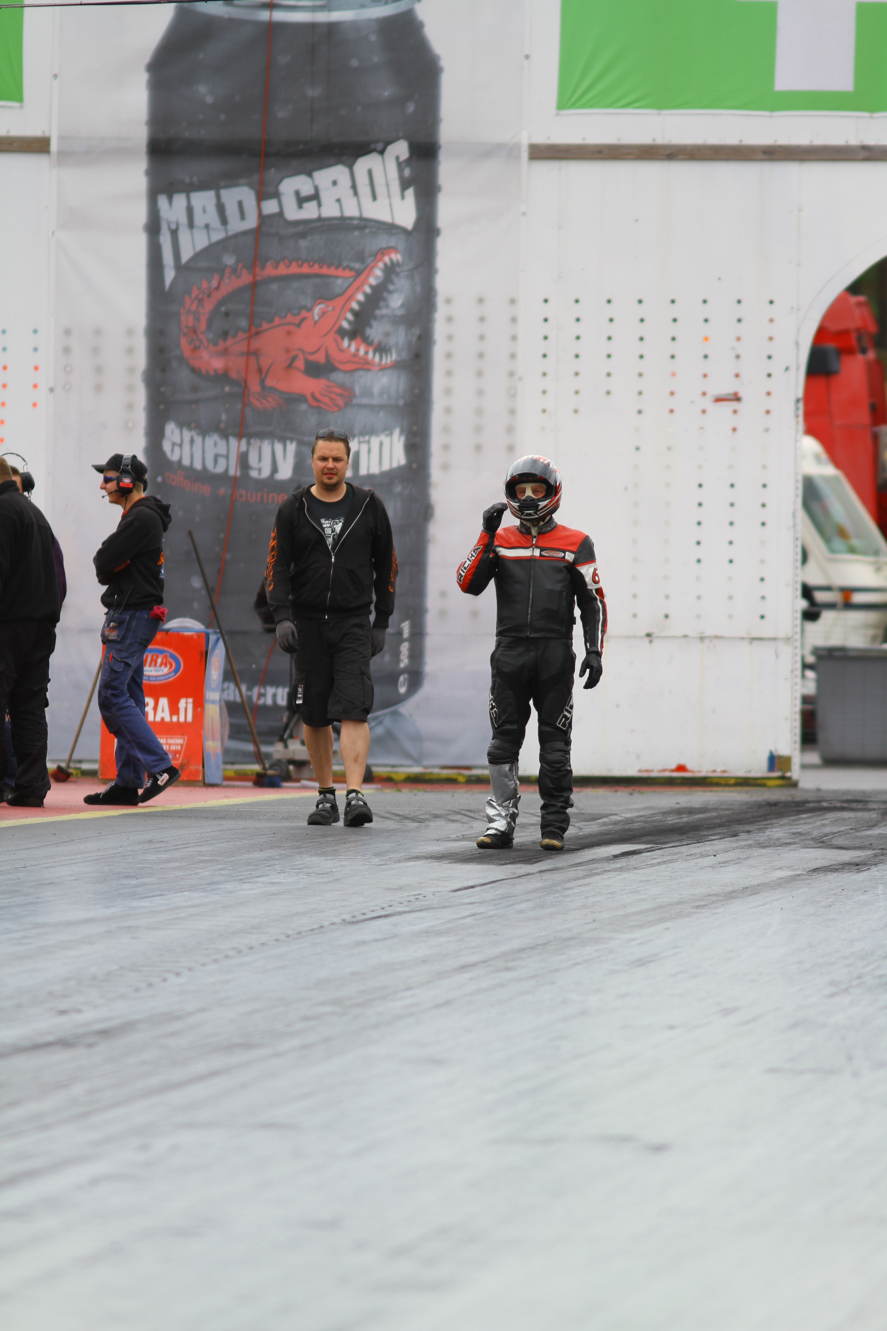 FHRA Kamasa Drag Race Week at Alastaro Circuit, Finland.